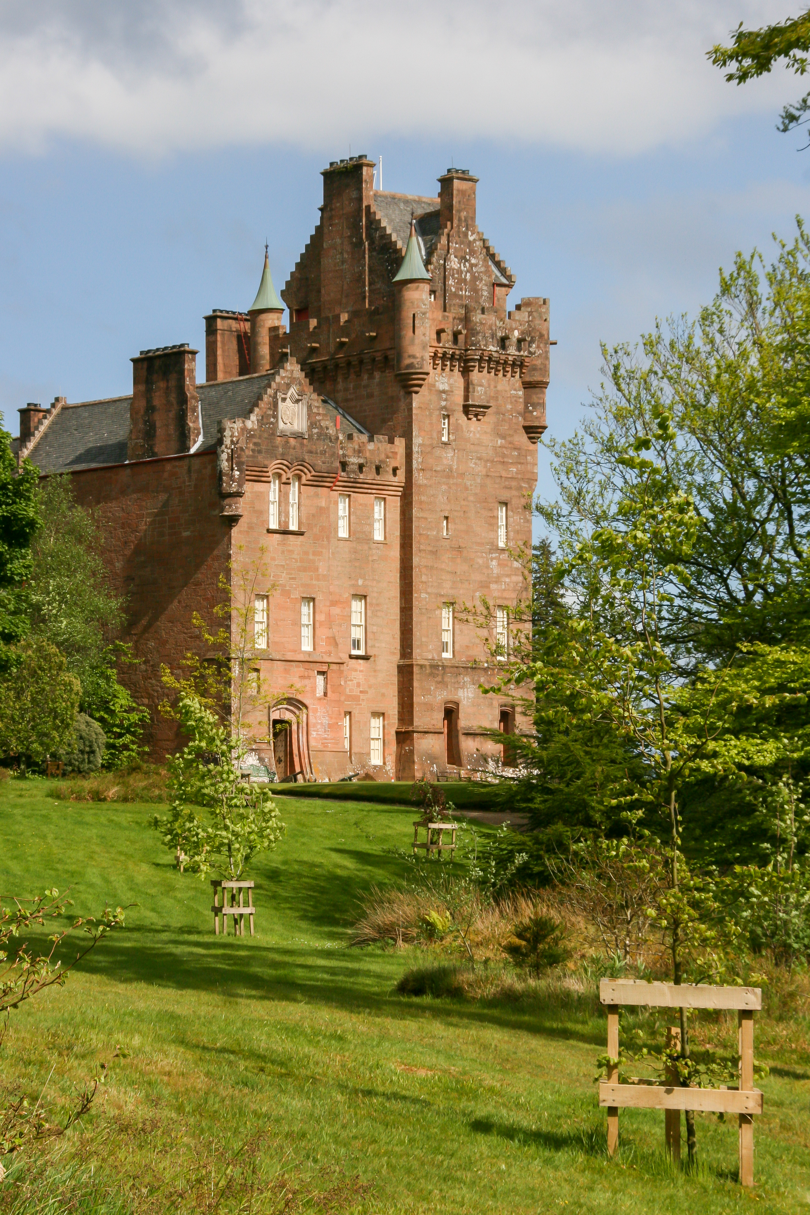 Brodick Castle.